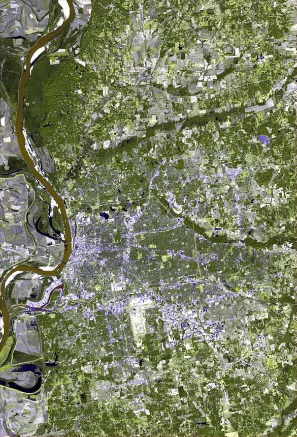 The raw satellite imagery shown in these images was obtain from NASA and/or the US Geological Survey. Post-processing and production by